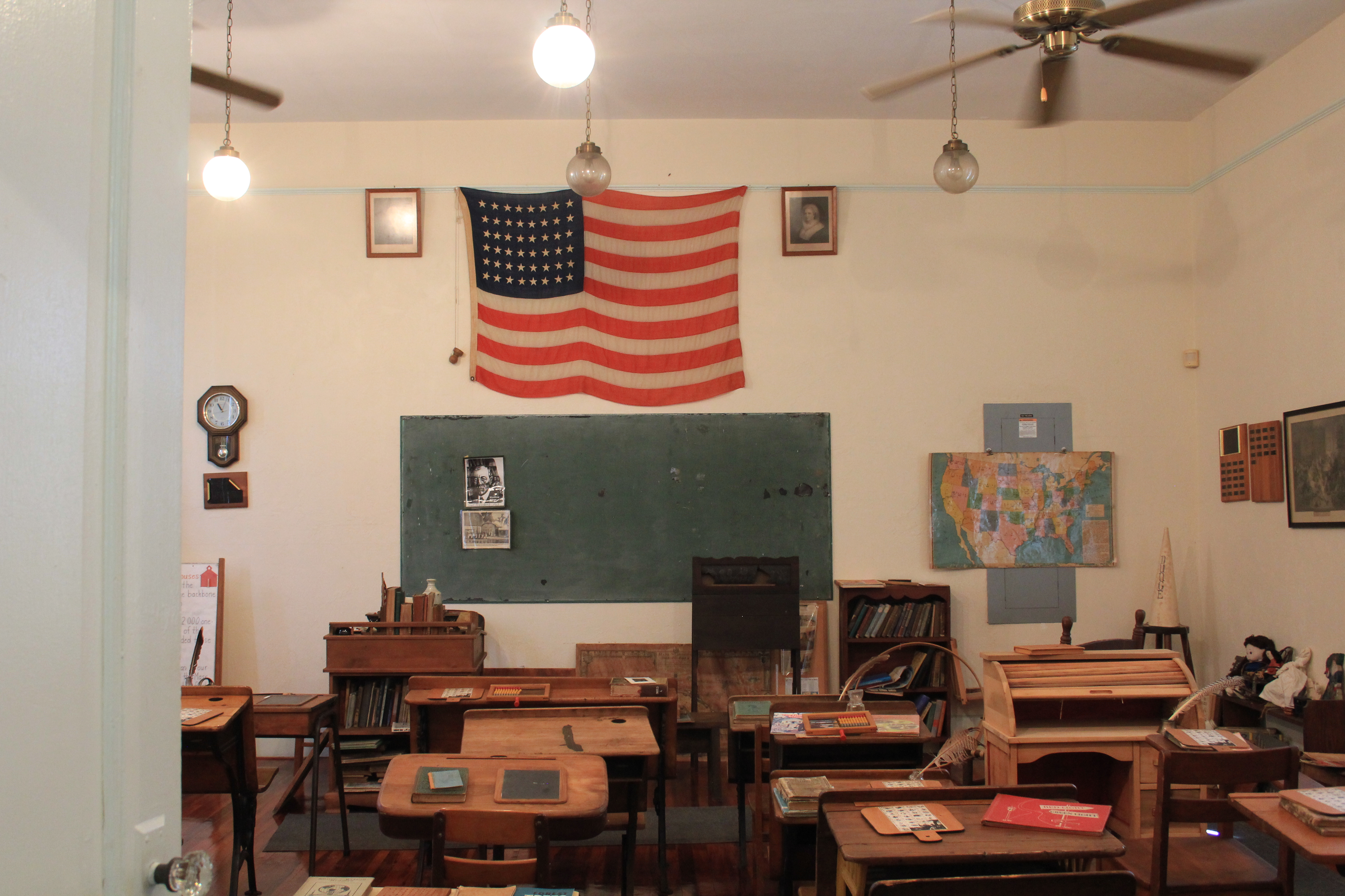 The Agriculture Vocational Building - Front of School Room - 48 Star USA Flag